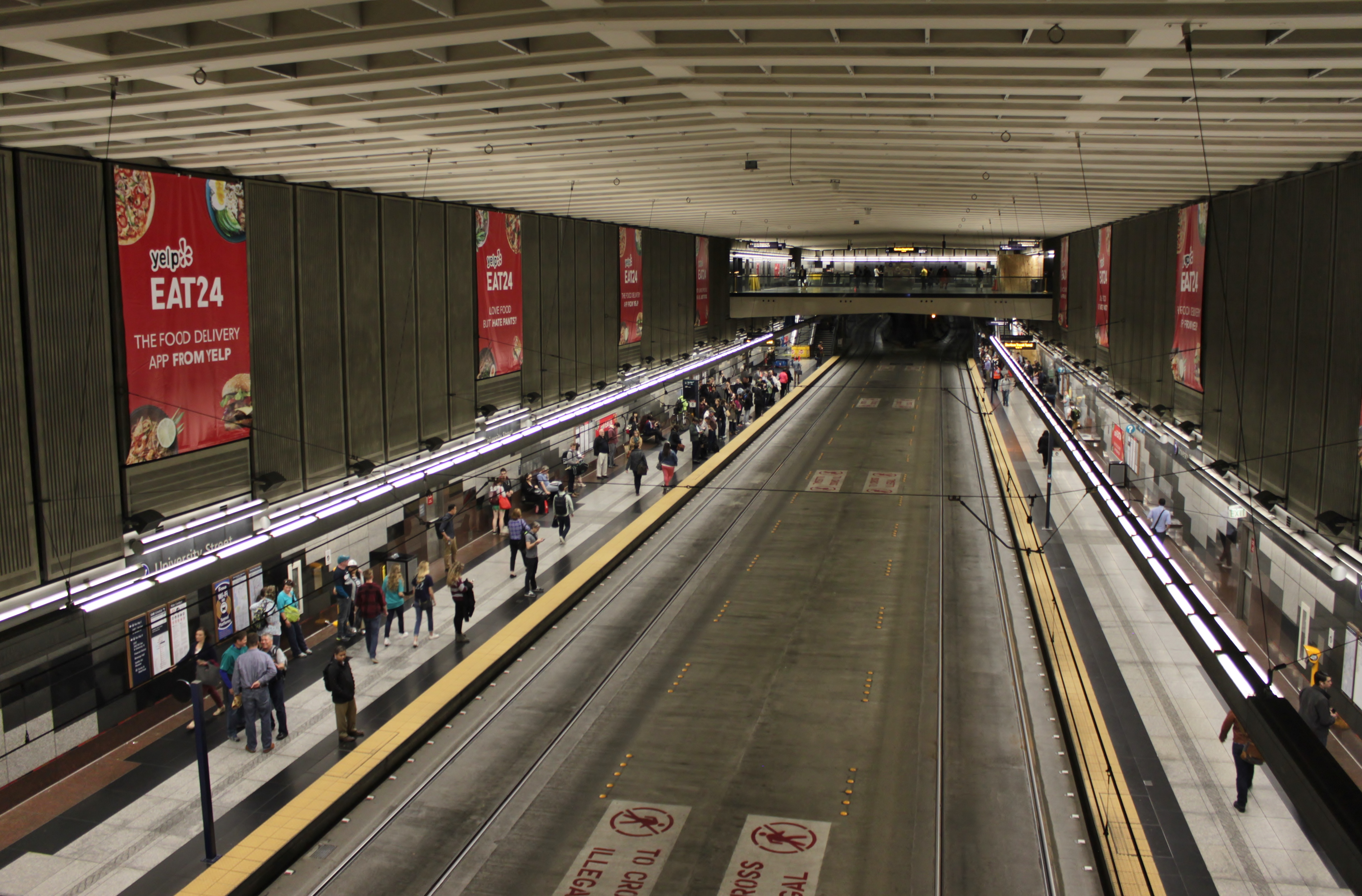 The platform at University Street station, a light rail and bus station in Downtown Seattle, viewed from the mezzanine.